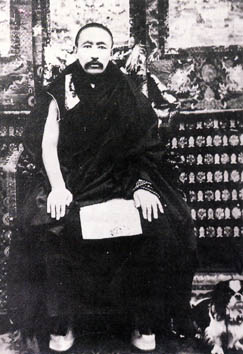 9th Panchen Lama, c. 1900.